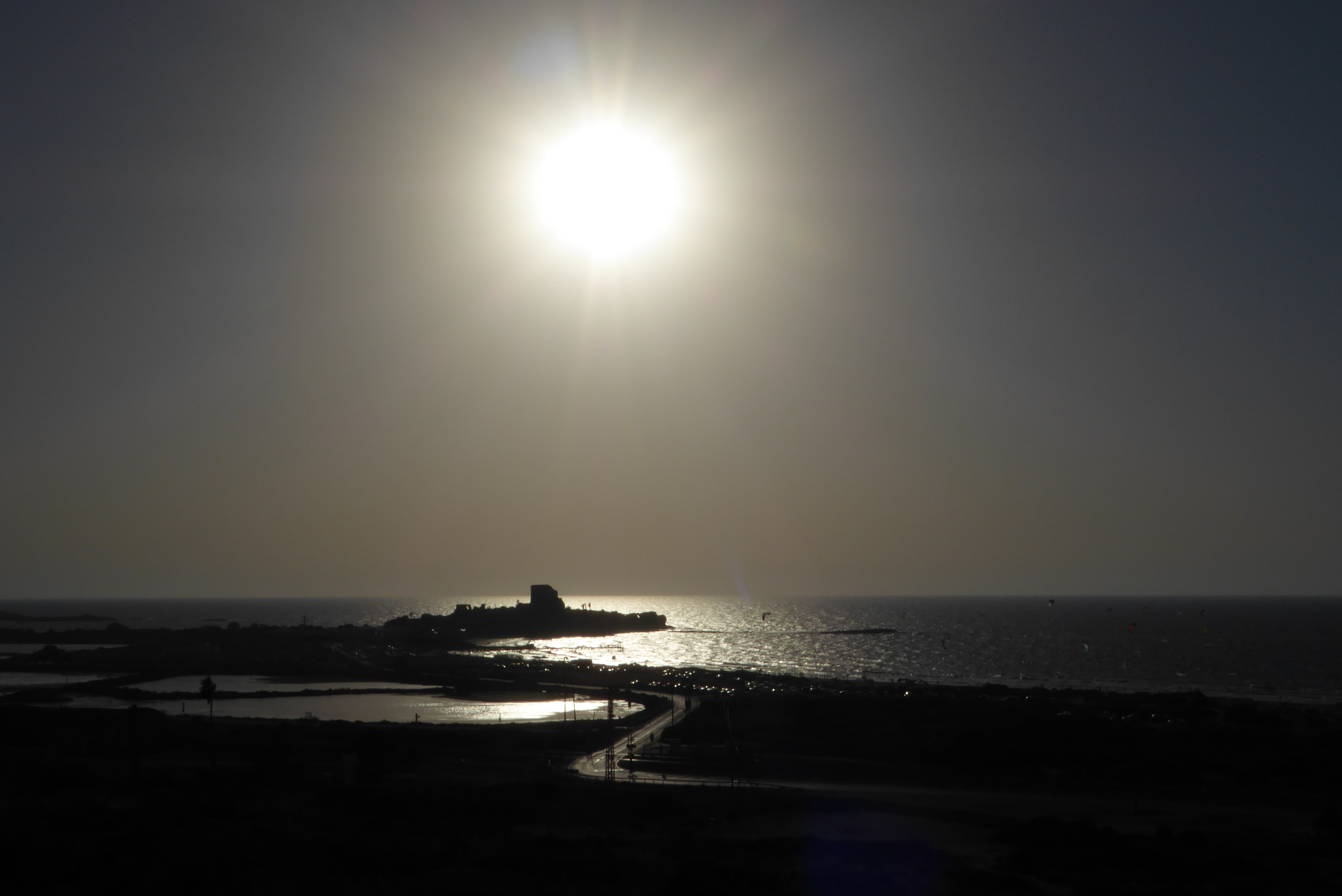 Chateau Pelerin